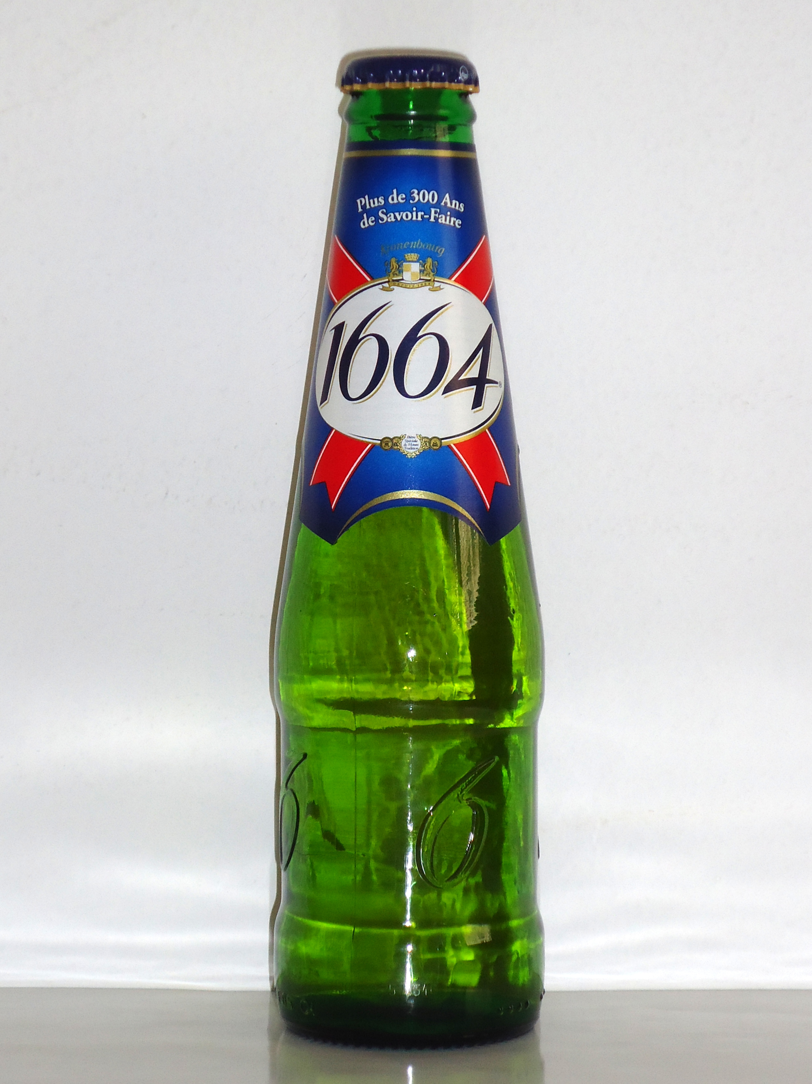 1664 beer